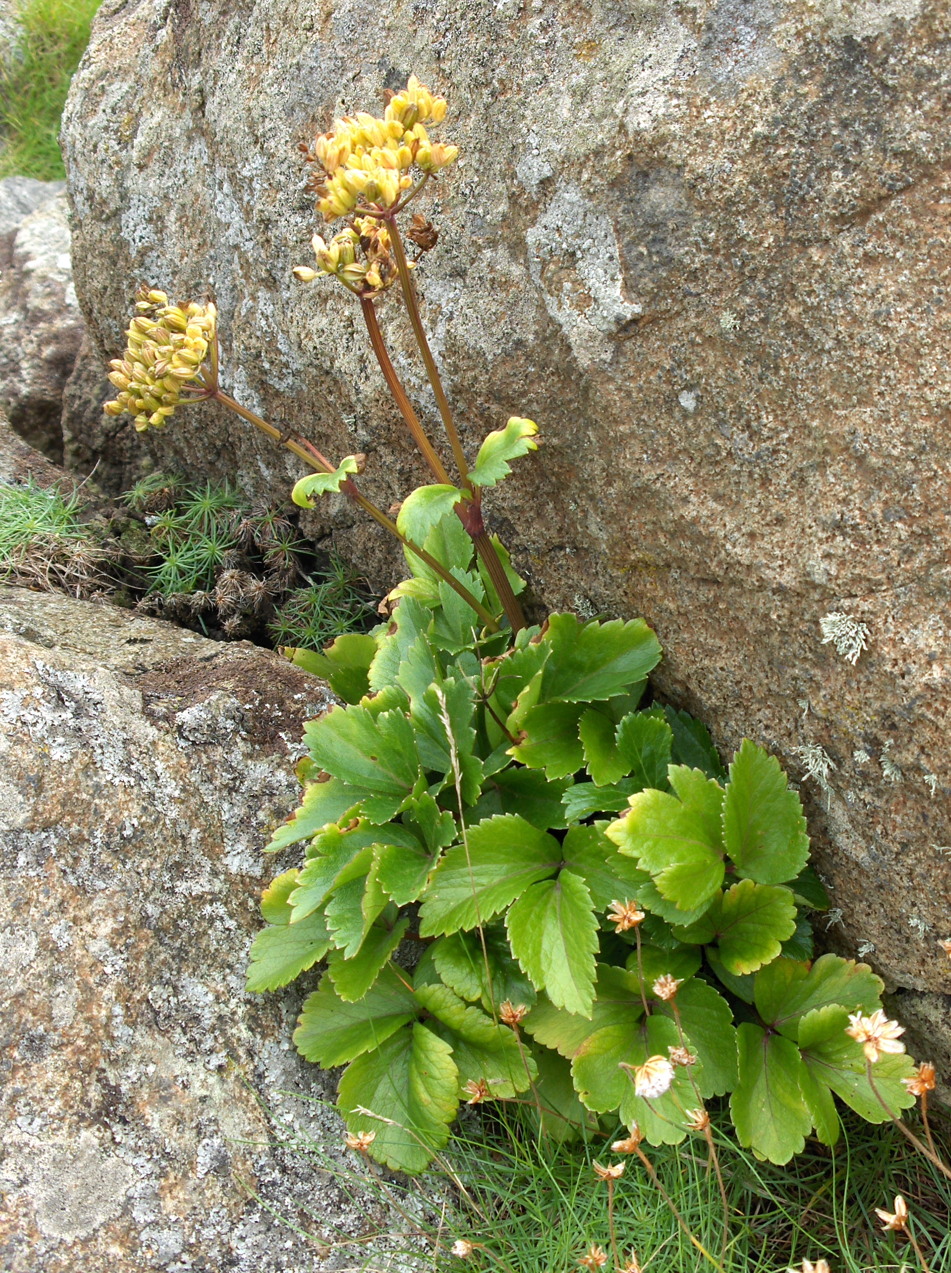 Ligusticum scoticum (Scots lovage), with seeds ripening. Taken on Cramond Island, Edinburgh.